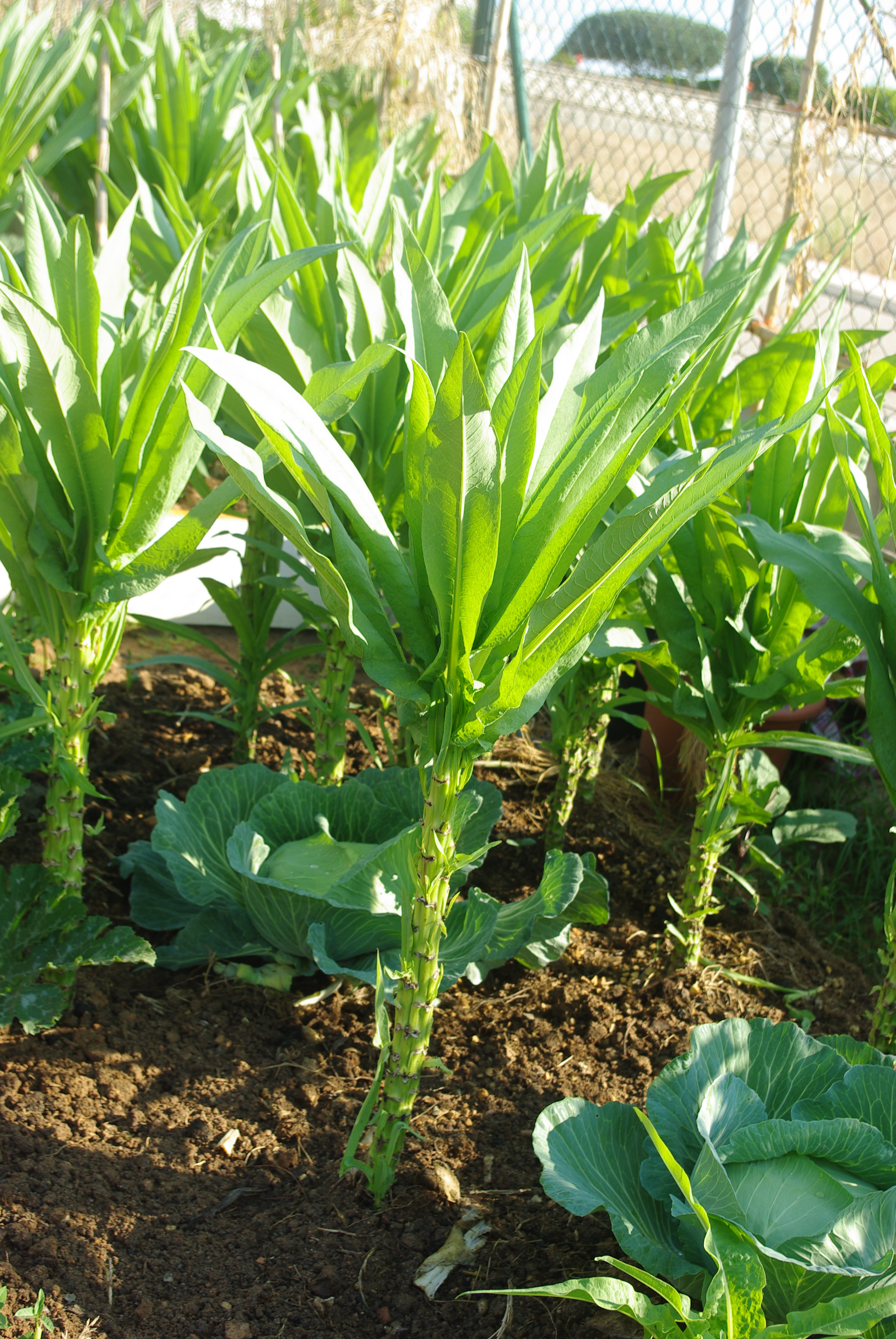 Chinese lettuce or "wosun".